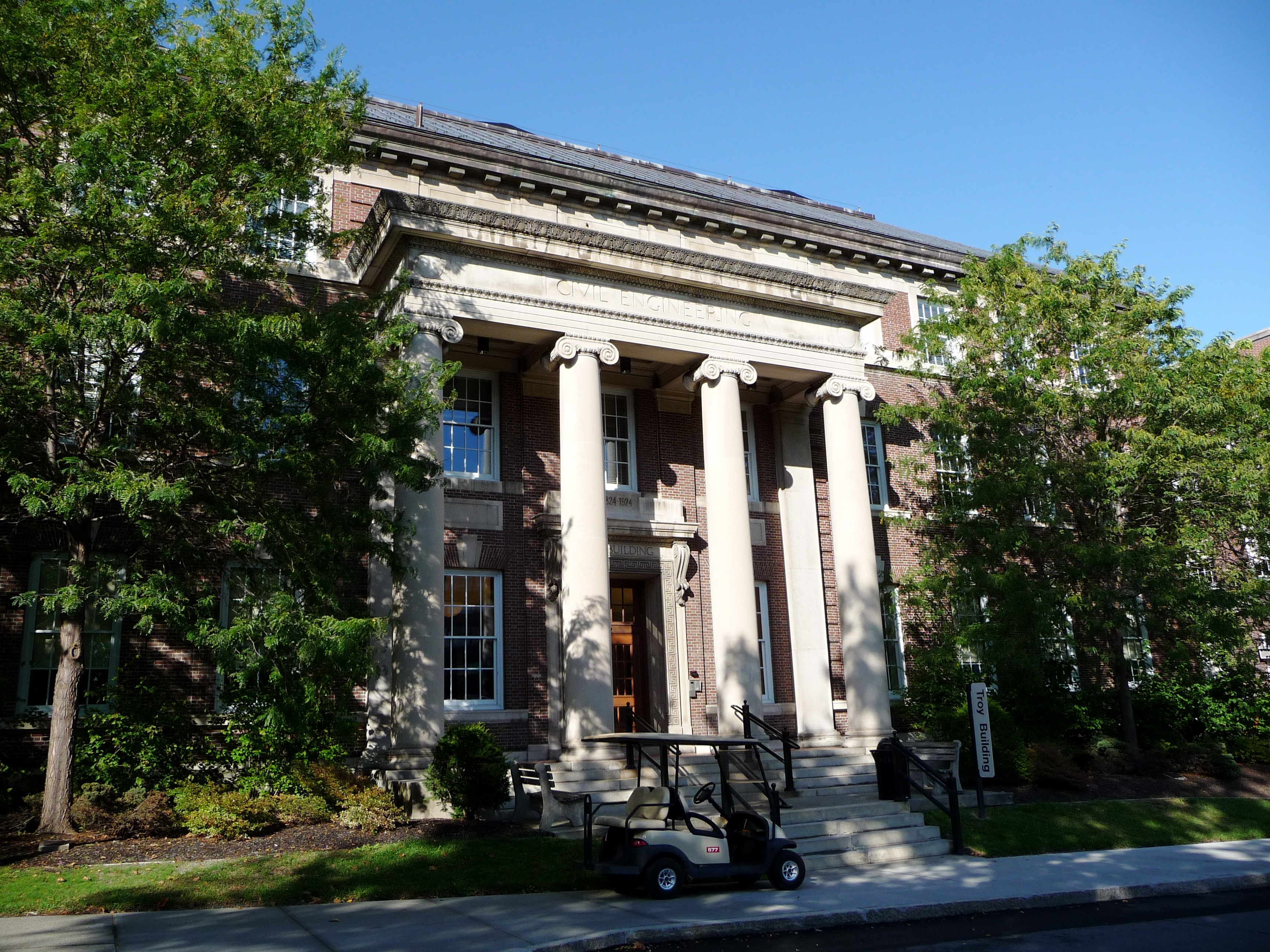 Troy Building on the campus of Rensselaer Polytechnic Institute in Troy, New York